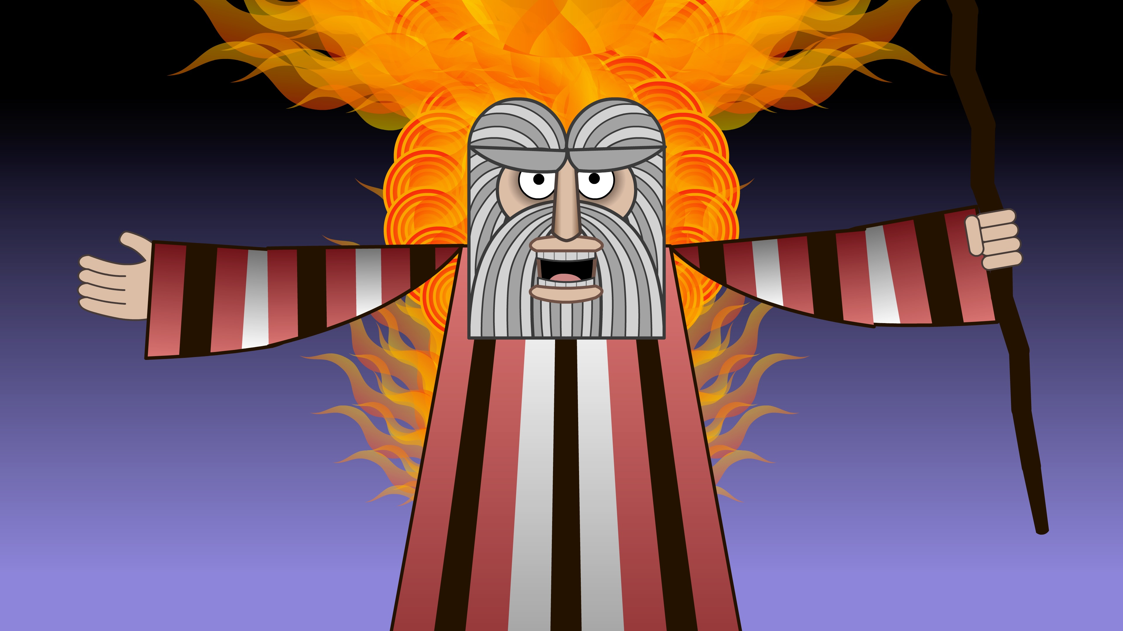 Still from the 2018 animated feature film Seder-Masochism by Nina Paley.